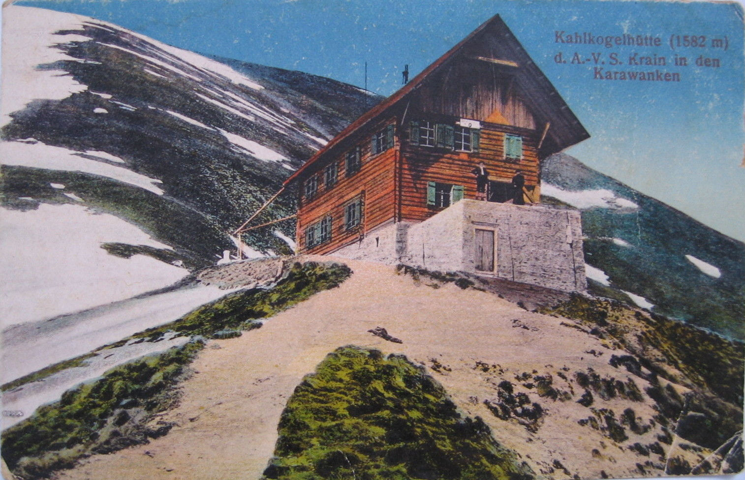 Postcard of Golica Lodge.